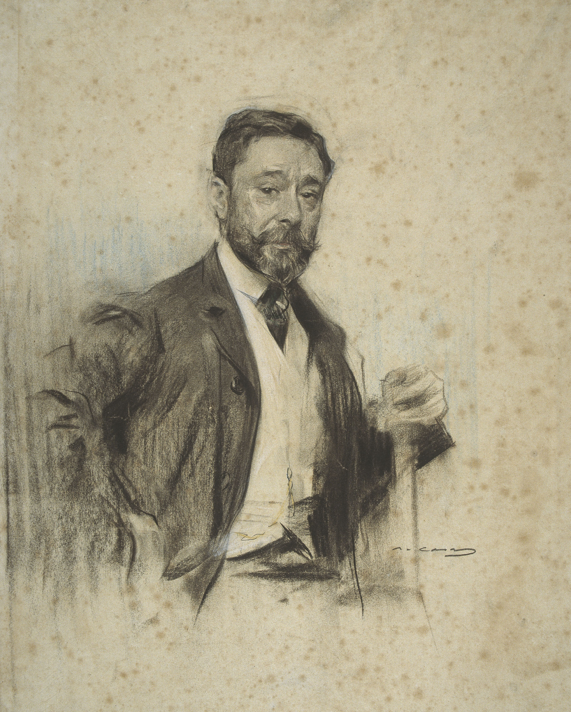 Portrait by Ramon Casas conserved at MNAC in Barcelona.